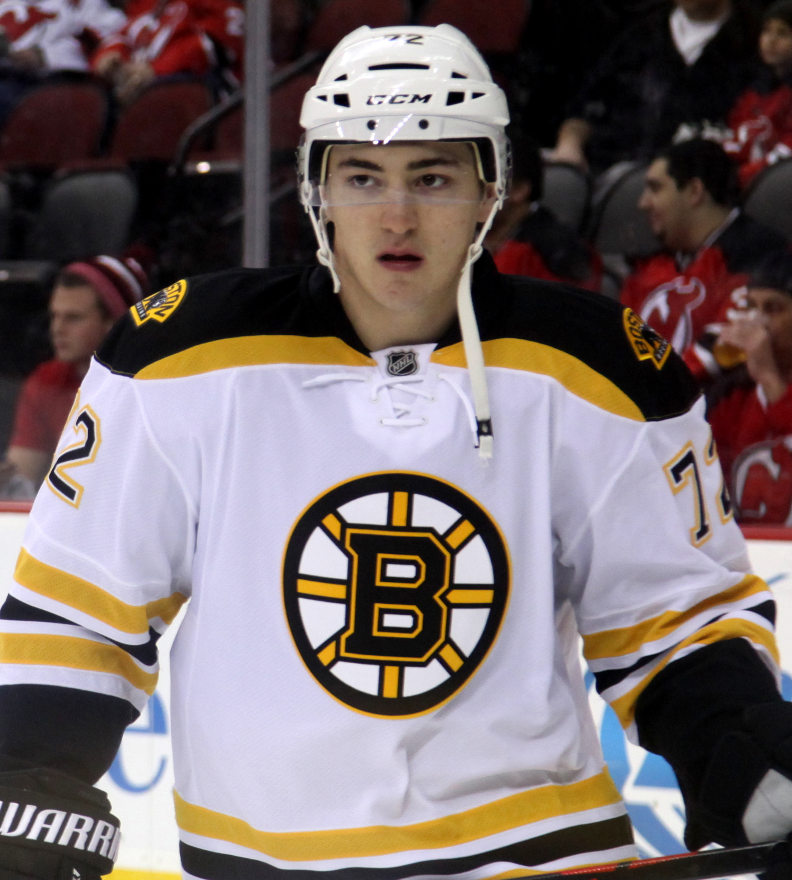 Vatrano in January 2016.